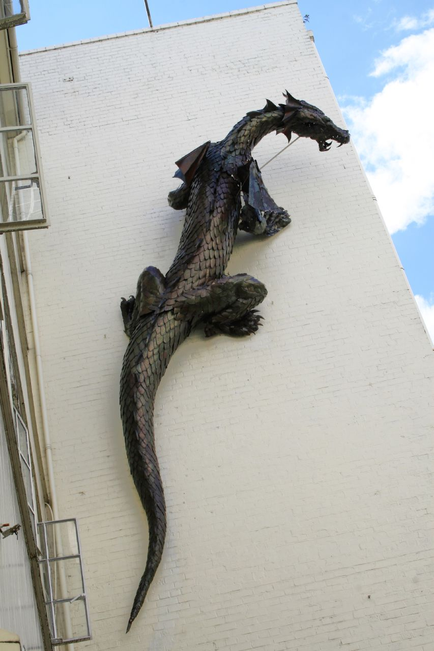 ...spider dragon, spider dragon; does whatever a huge metal sculpture of a dragon can...